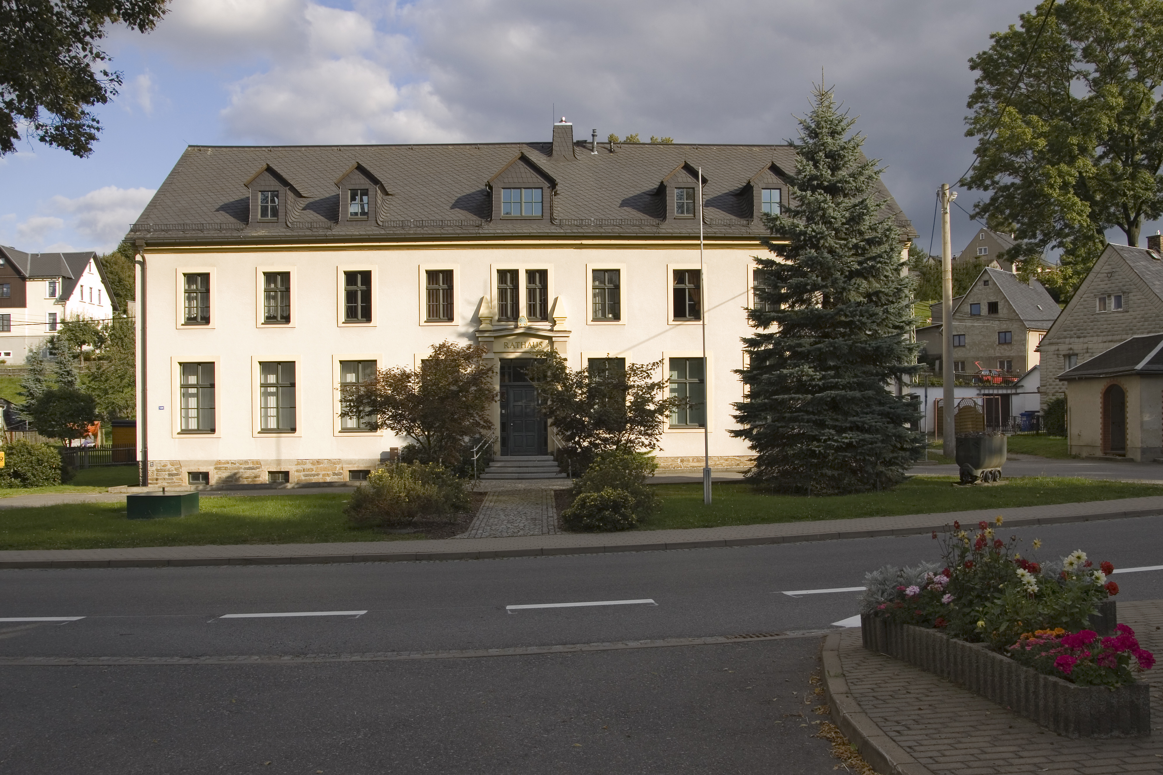 Langenau (Brand-Erbisdorf), town hall